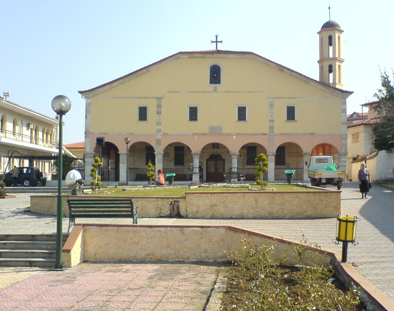 New metropolitan church of Giannitsa, Greece.